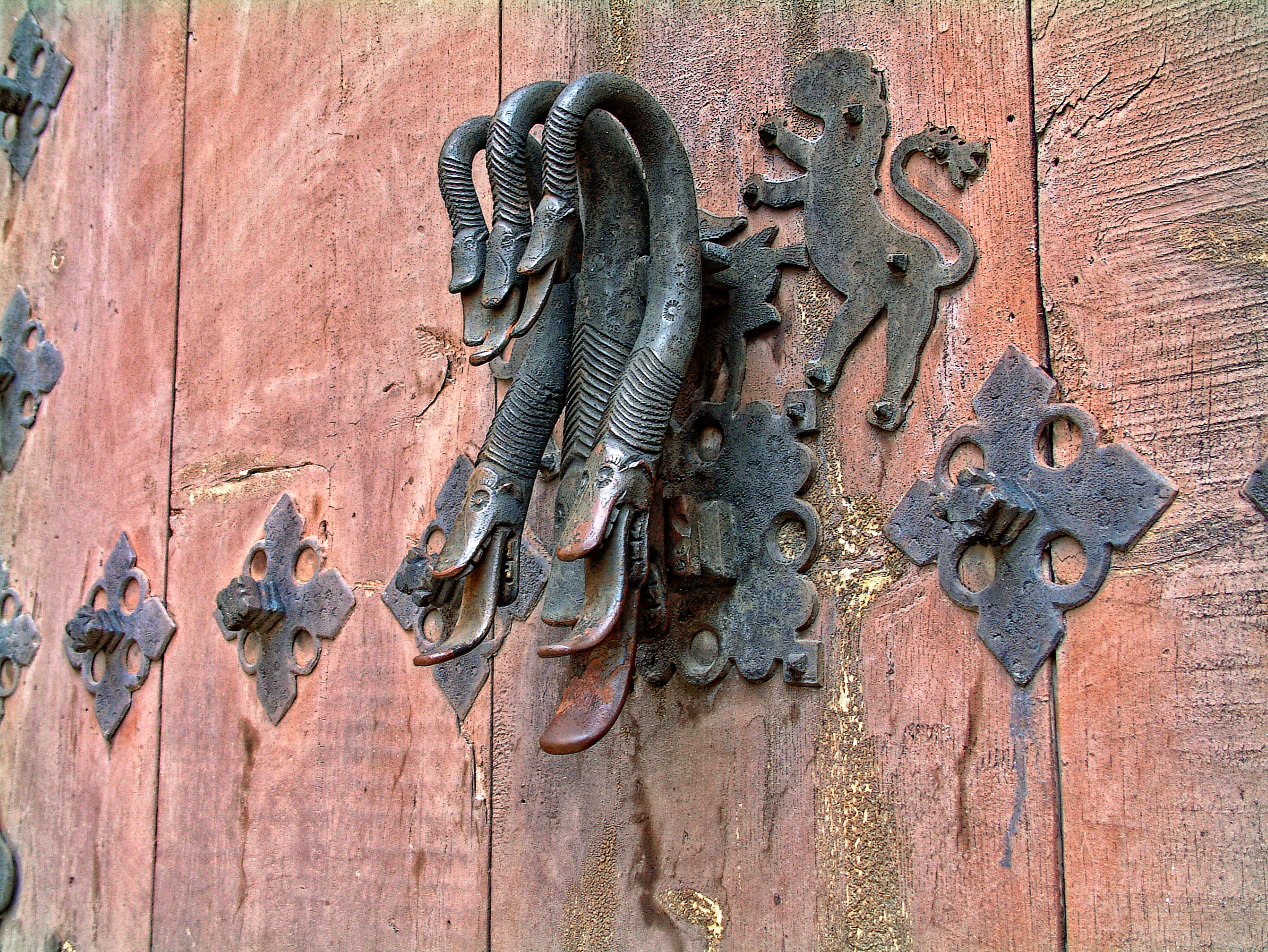 Las aldabas o "trucadores" como decimos en Aragón, pueden tener formas muy variadas, desde sobrias y funcionales a formas de animales, como este trucador lagomorfo de Albarracín, obra del herrero Adolfo Jarreta, que dejó en Albarracín numerosas muestras del arte de su forja.